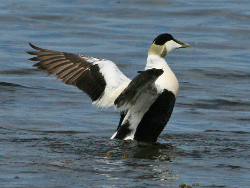 Common Eider (Somateria mollissima) - Scotland